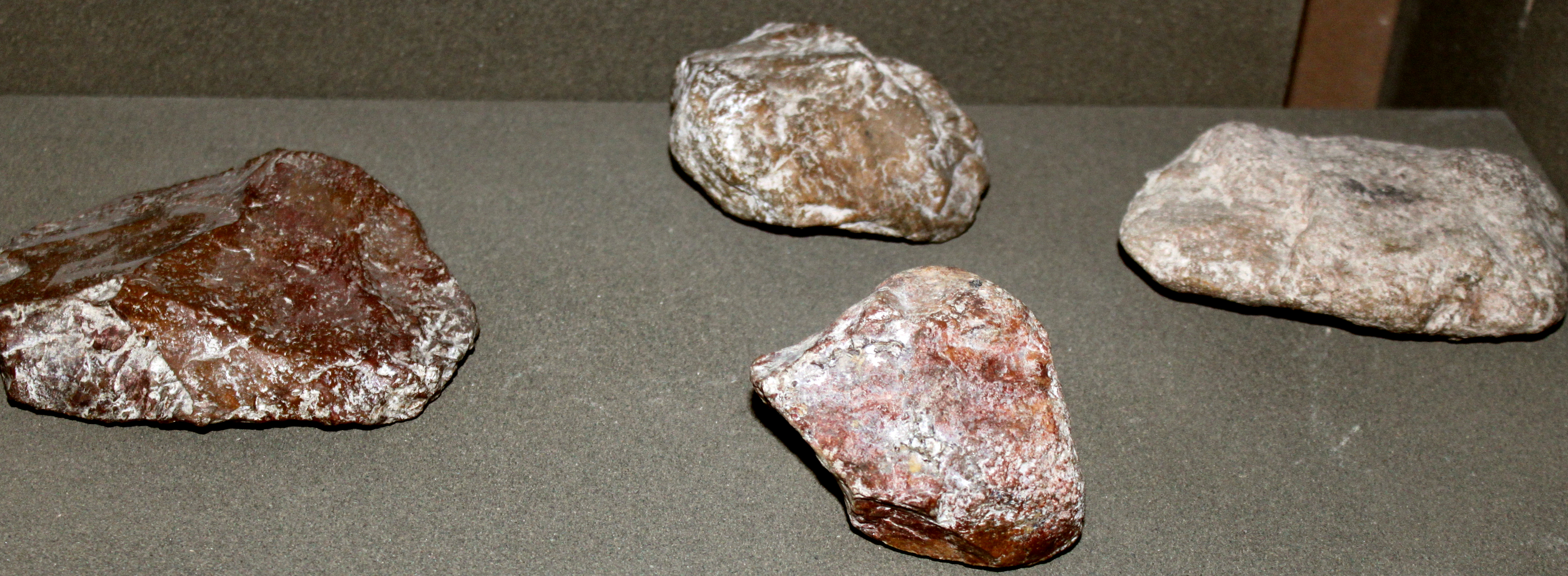 Çaydaşından əmək alətləri (Quruçay mədəniyyəti), X-VII təbəqələr, 1,5 milyon - 700 min il əvvəl